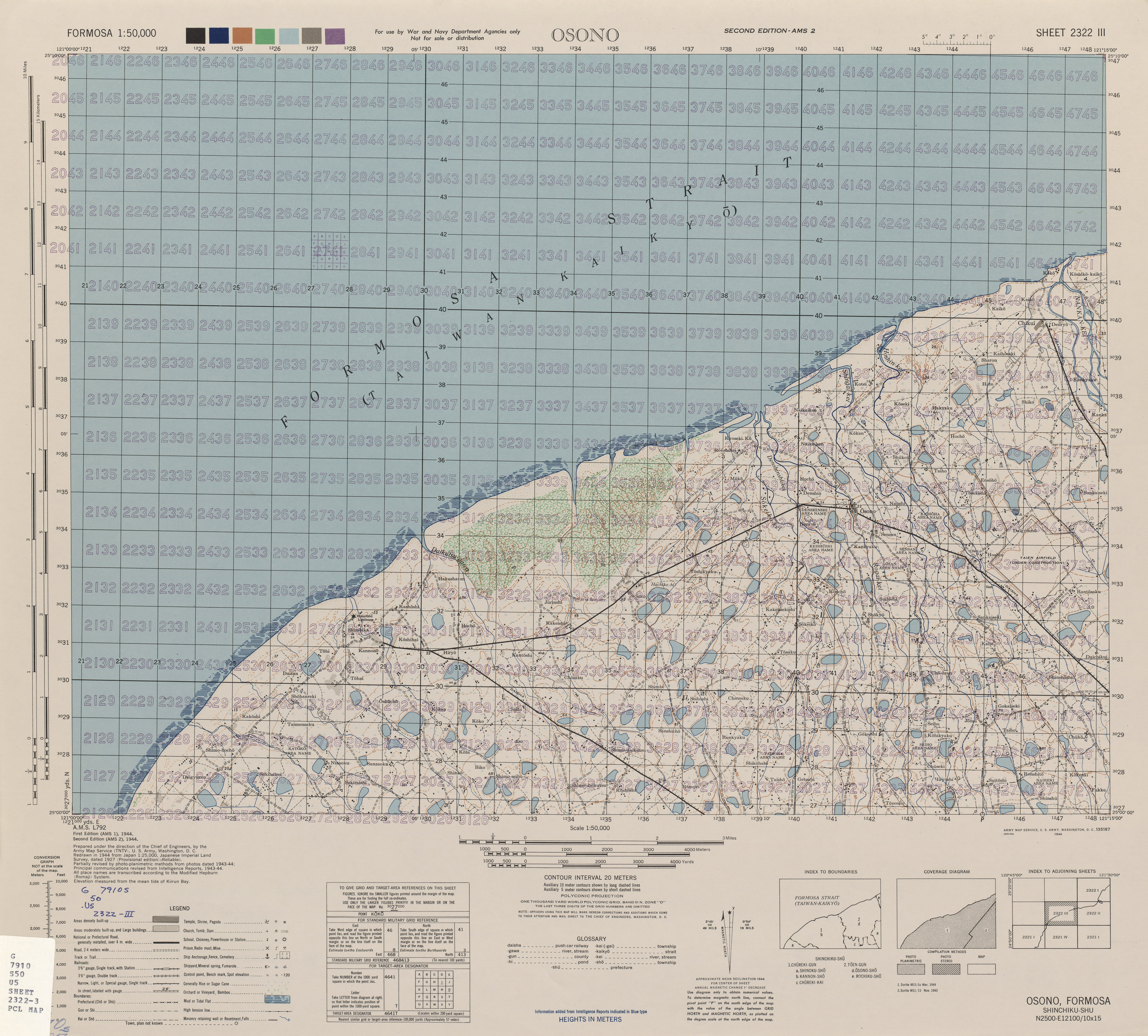 Map from Formosa (Taiwan) 1:50,000 AMS Series L792